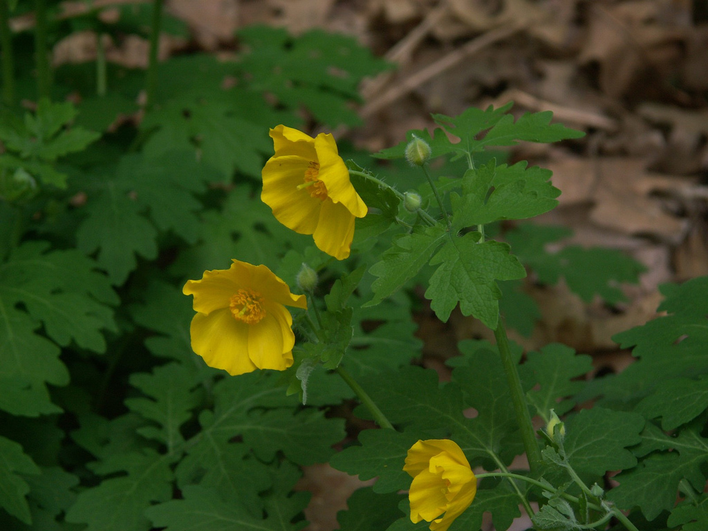 Stylophorum diphyllum (celandine-poppy) flowers at the Minnesota Landscape Arboretum.